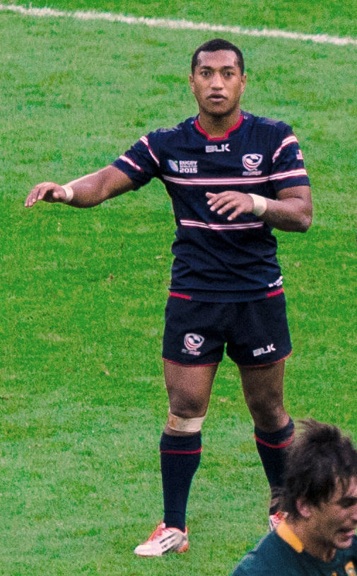 2015 Rugby World Cup game between South Africa and the United States played at the Olympic Stadium in London.